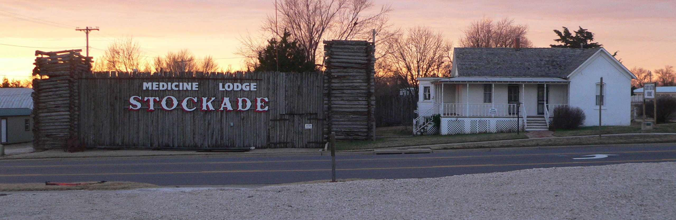 Medicine Lodge Stockade Museum (left) and Carry A. Nation house (right), on the south side of Fowler Street (U.S. Highway 160) east of Oak Street in Medicine Lodge, Kansas; seen from the north.